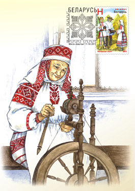 Old woman in belarussian national costume